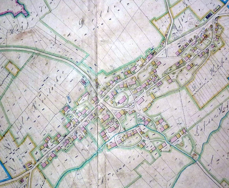 Parcel map of Crainfeld from 1832.